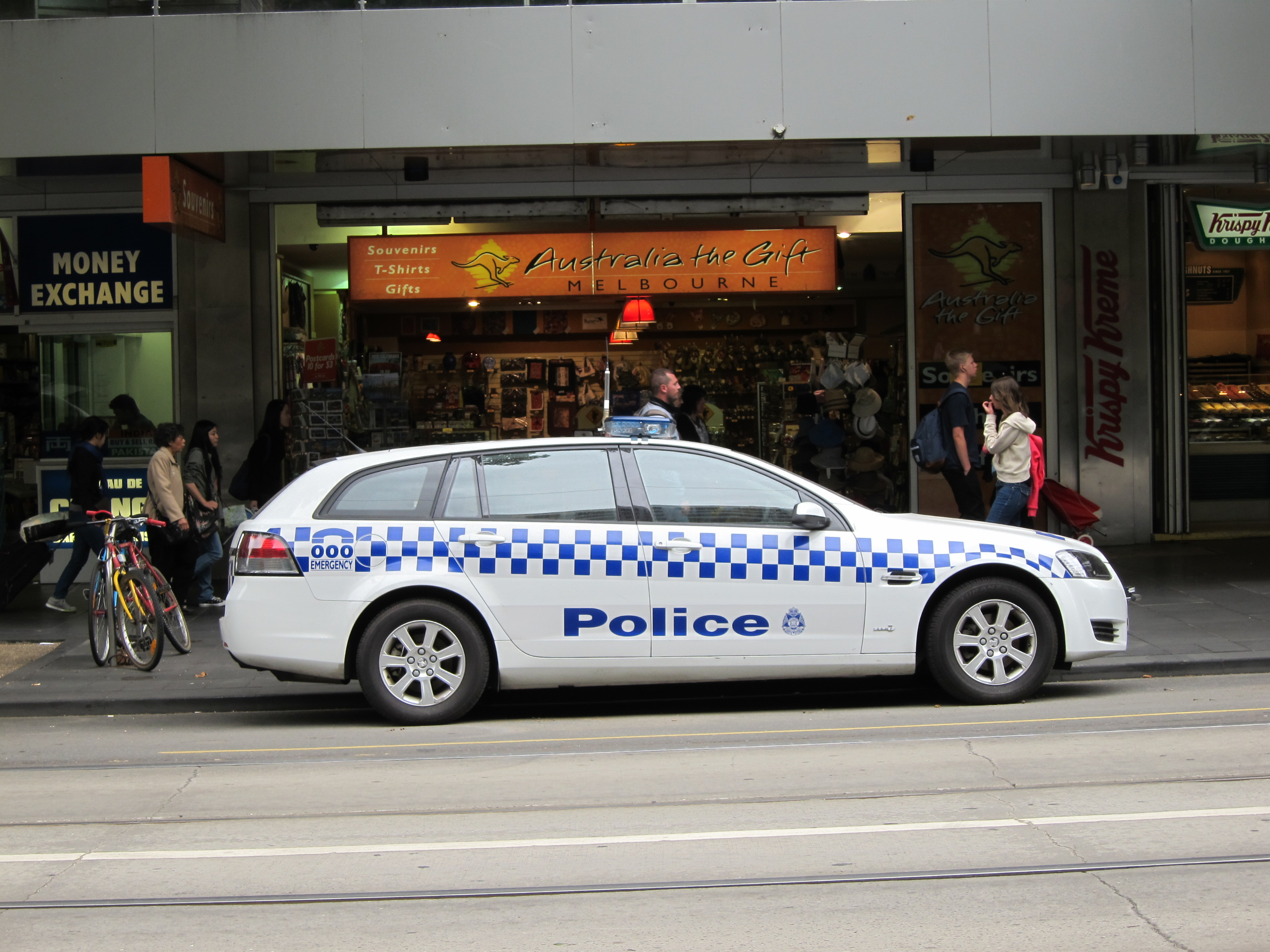 Police car in the Melbourne city centre